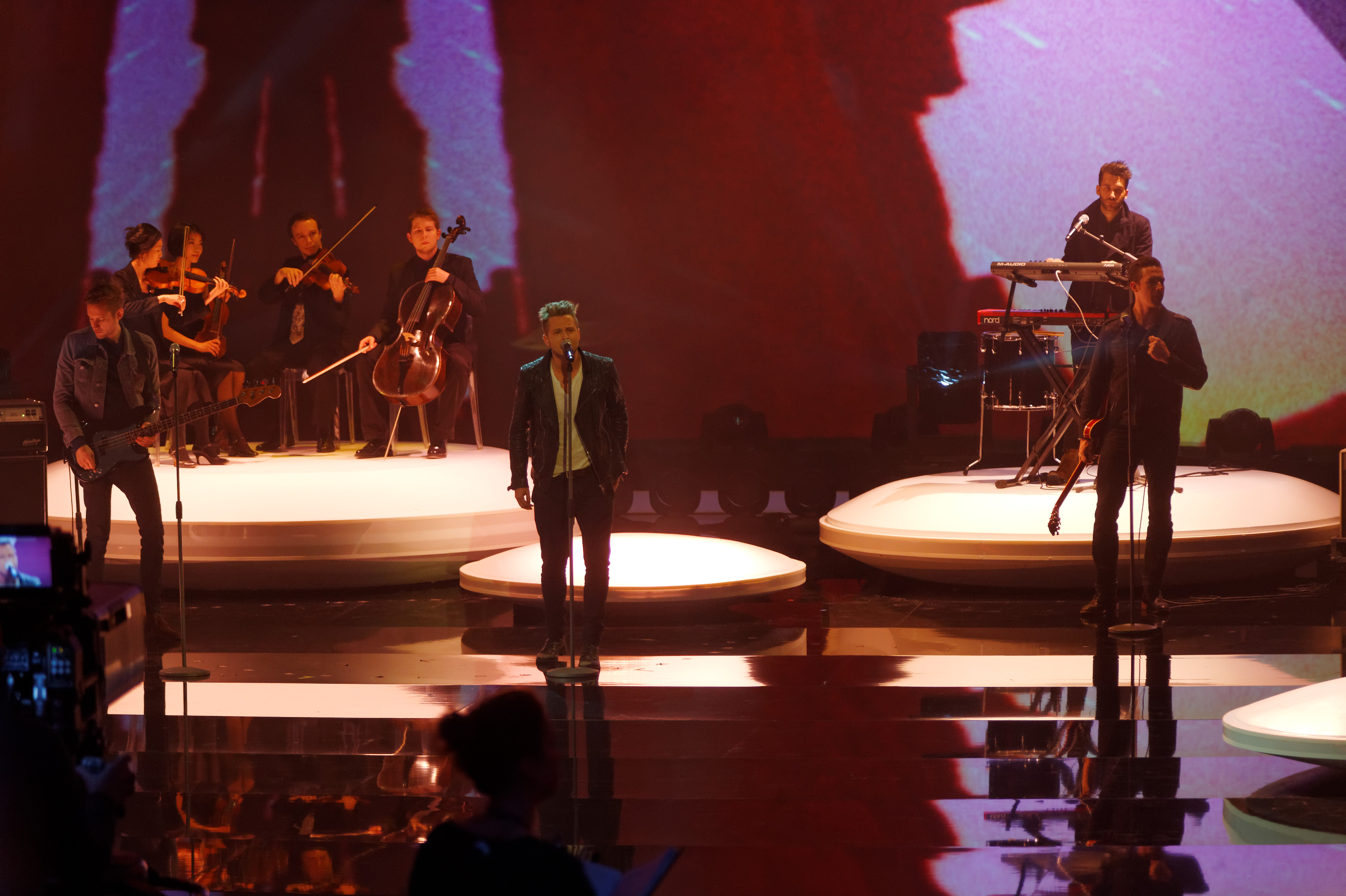 Wetten, dass.. ? am 23. März 2013 in der Stadthalle Wien The making of this document was supported by Wikimedia Austria. One Republic